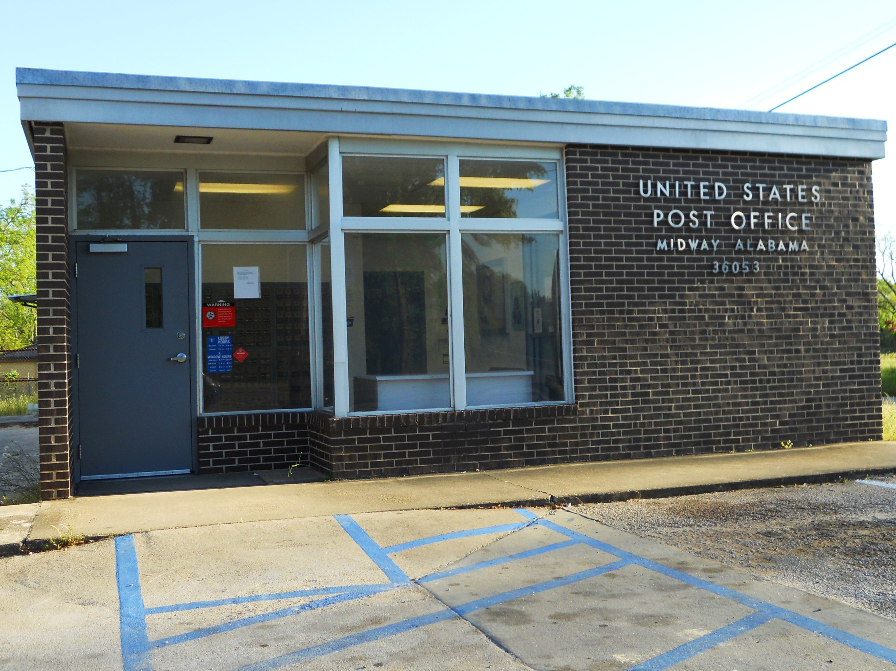 This is a photograph of the post office in Midway, Alabama.